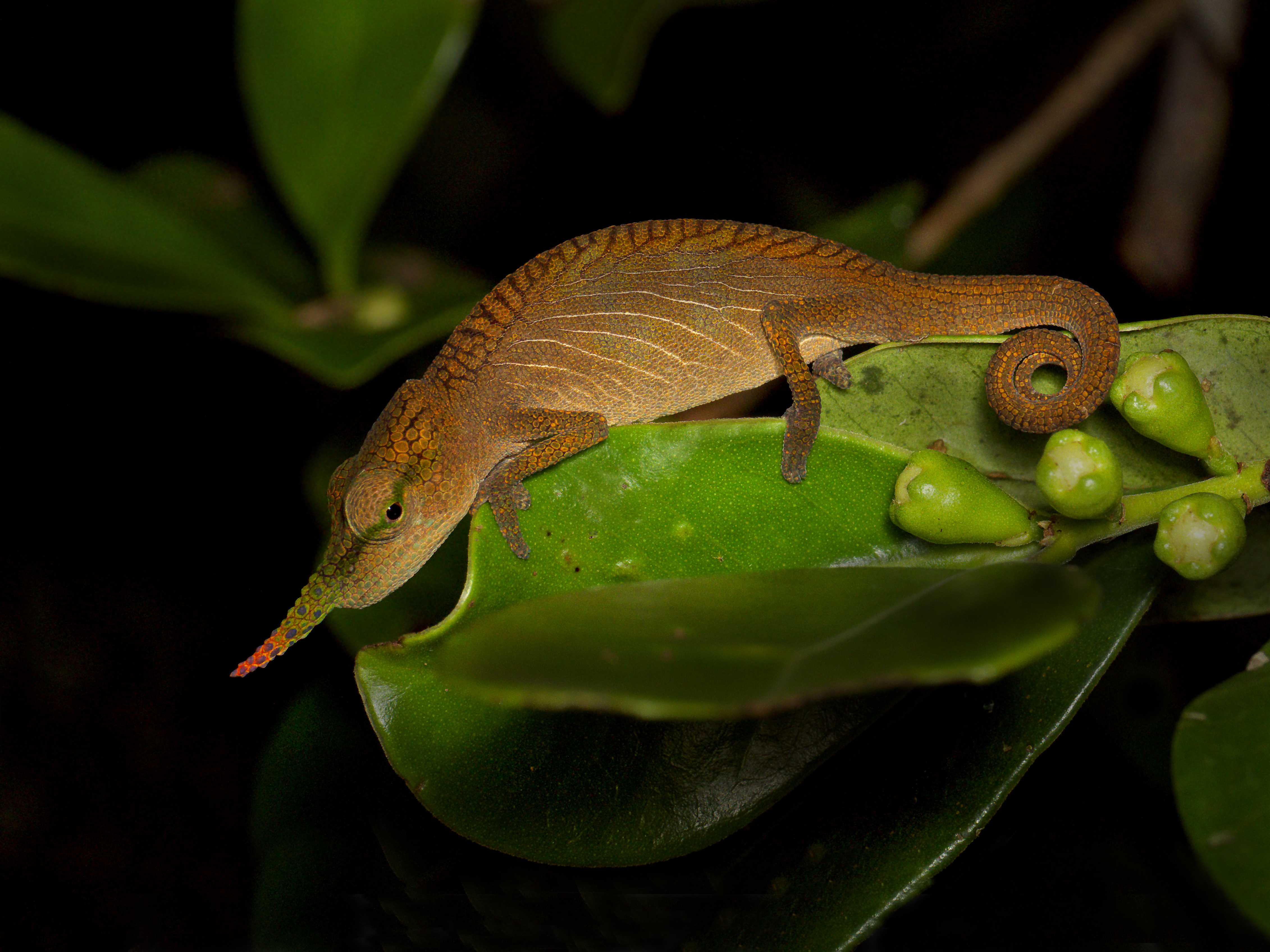 Male of Long-nosed Chameleon (Calumma gallus) at Vohimana reserve, Madagascar